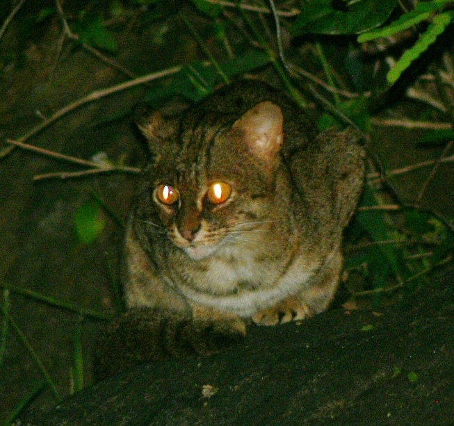 Photograph of a Rusty-spotted cat in its natural habitat in the Anamalai hills, south India.